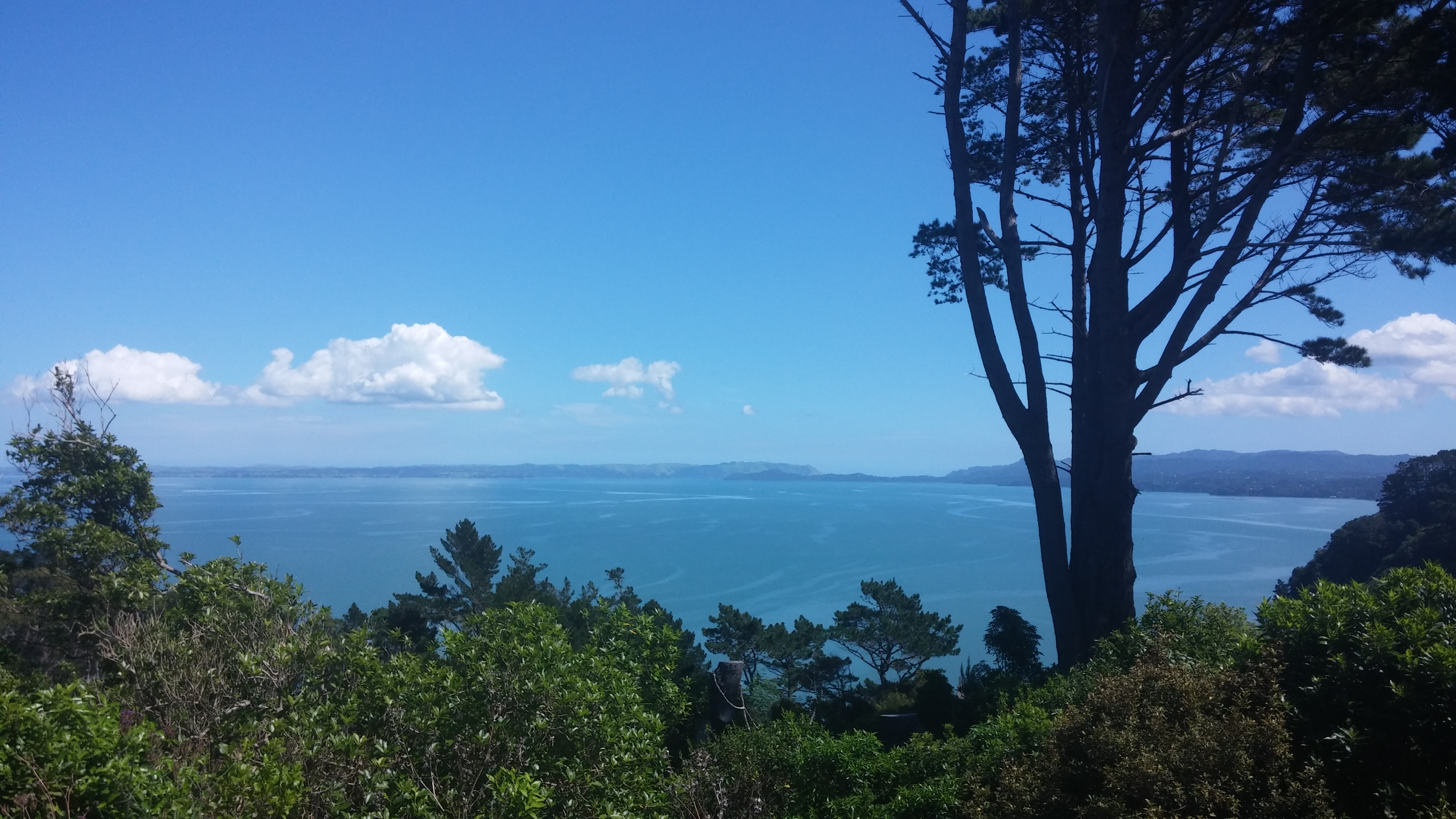 Looking south from Waikowhai, Auckland over the Manukau Harbour.